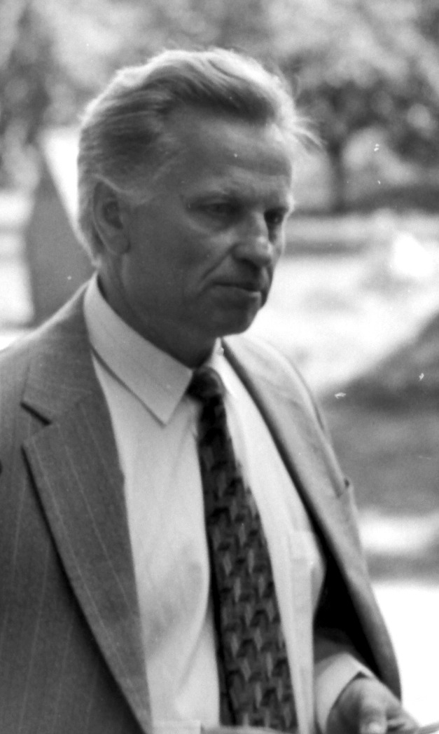 Philosopher Žibartas Juozas Jackūnas in Šarkaičiai, LithuaniaLietuvių: filosofas, pedagogas Žibartas Juozas Jackūnas, Šarkaičiuose, Lietuva